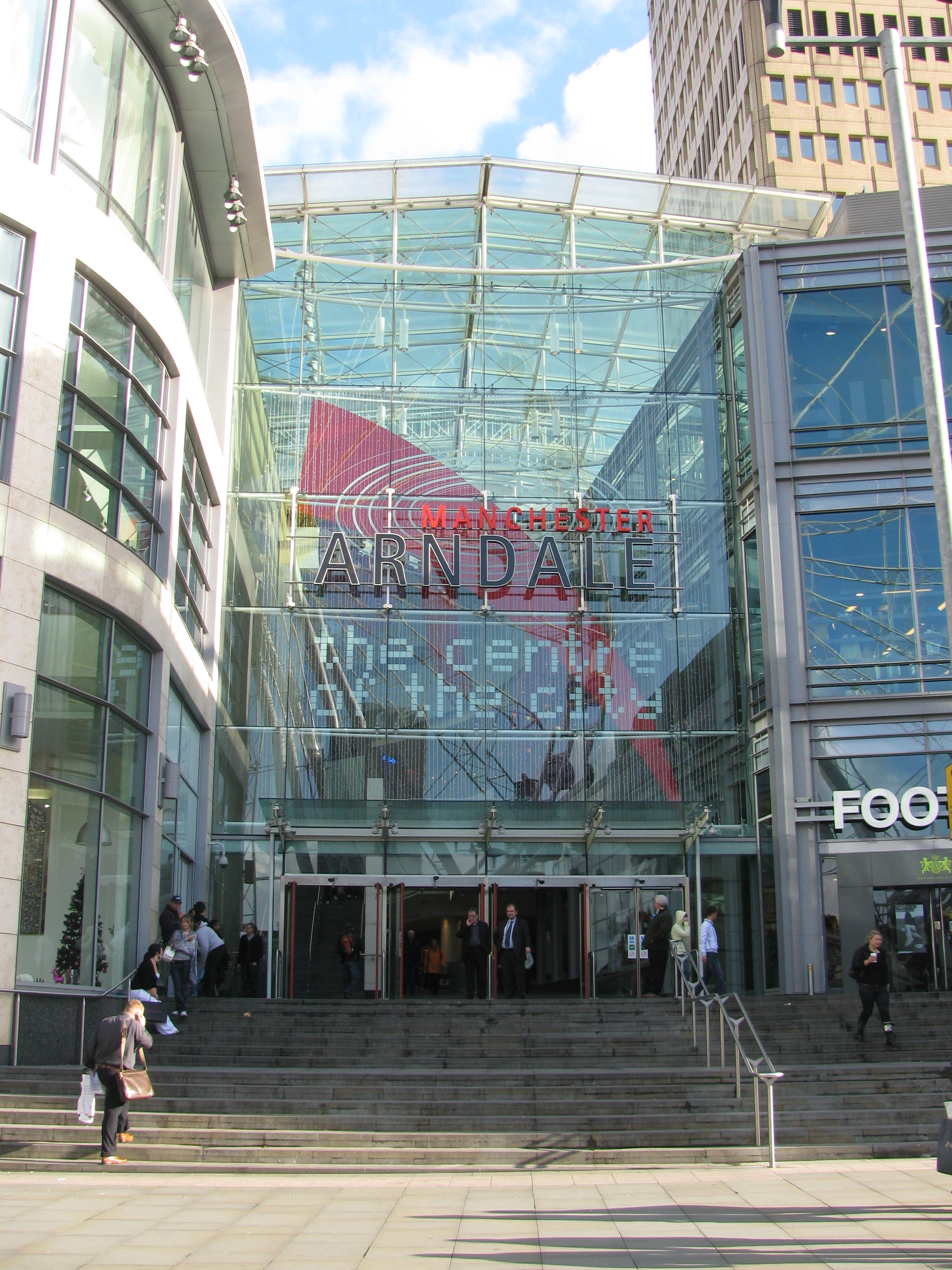 Manchester Arndale's front entrance from opposite Corporation Street in Exchange Square